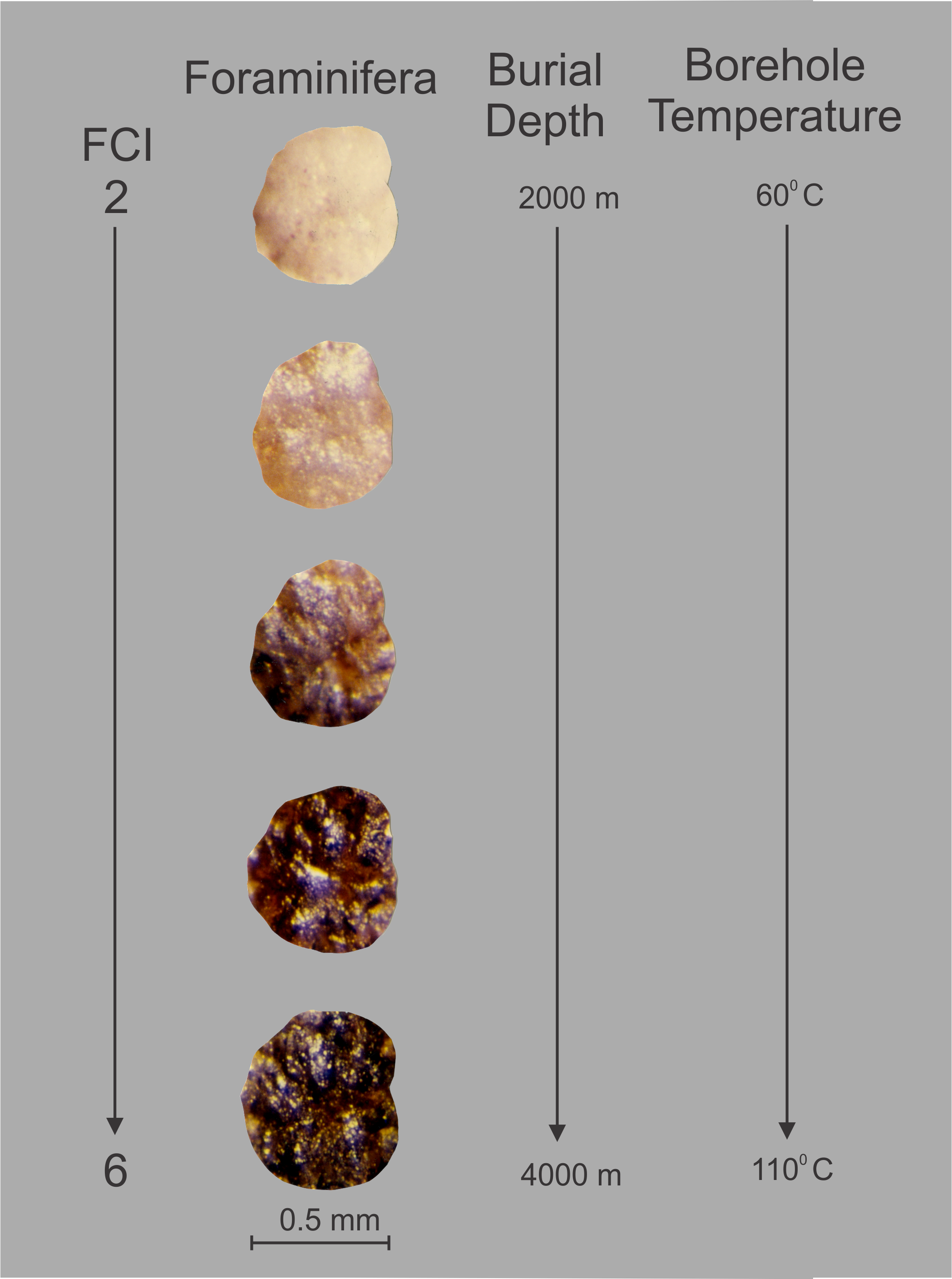 Agglutinated foraminifera (microfossils) become progressively darker with increasing burial depth and temperature. Specimens are from an oil well. Burial depths range from 2000 to 4000 metres. Calculated temperatures in the borehole ranged from 60oC to 110oC. Colour changes are quantified using the Foraminifera Colouration Index (FCI). FCI values ranged from 2 to 6.